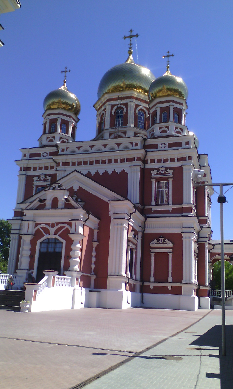 Church of the Intercession of the Holy Mother (Church of Pokrov), Gorky St., Saratov